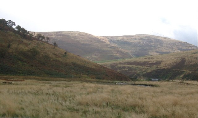 Windy Knowe. Shows Windy Knowe centre, with the slopes of Whiteside Law (left) and Peatrig Hill (right)